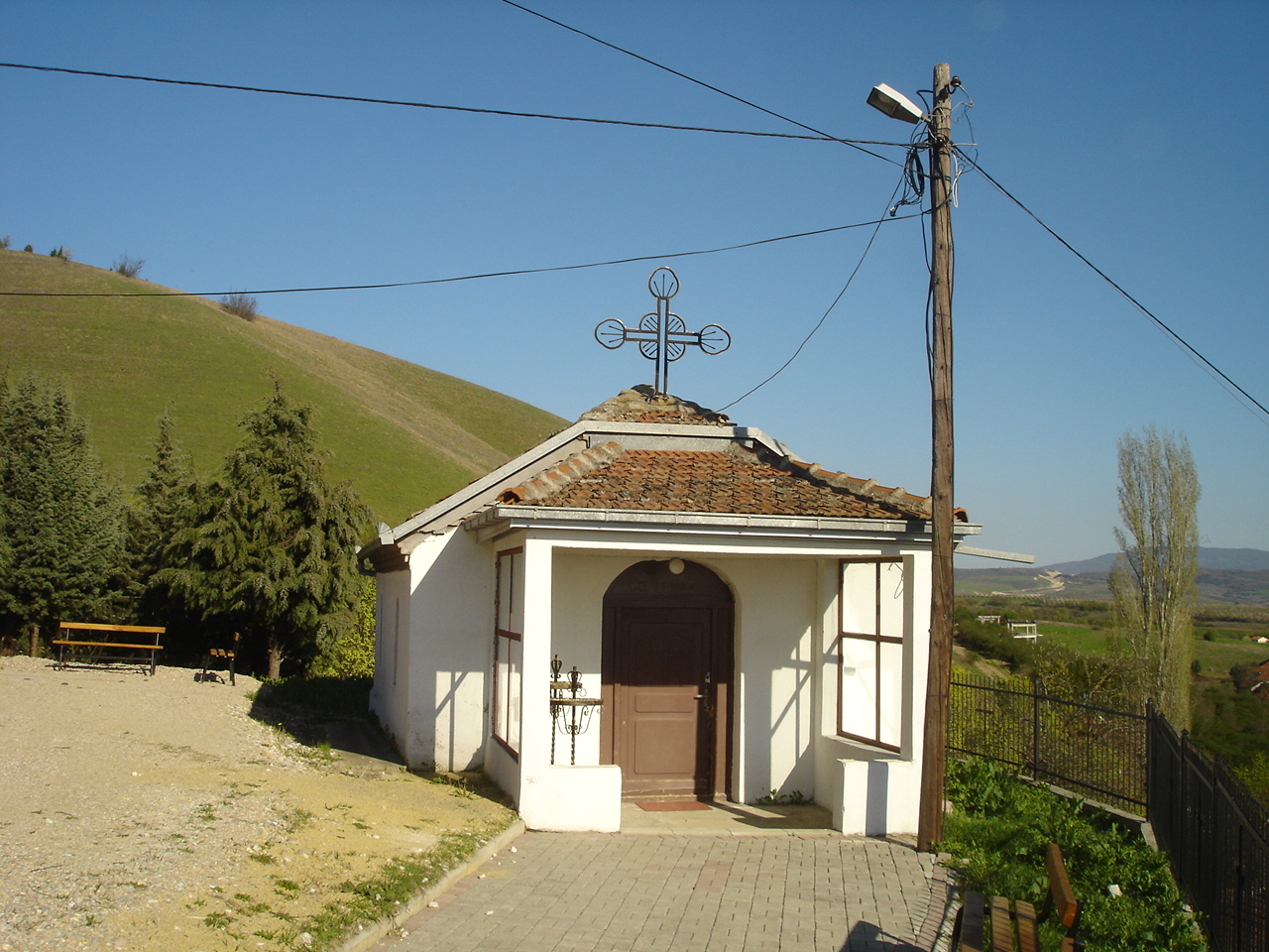 The church in the village of Ajvatovci, near Skopje, Macedonia